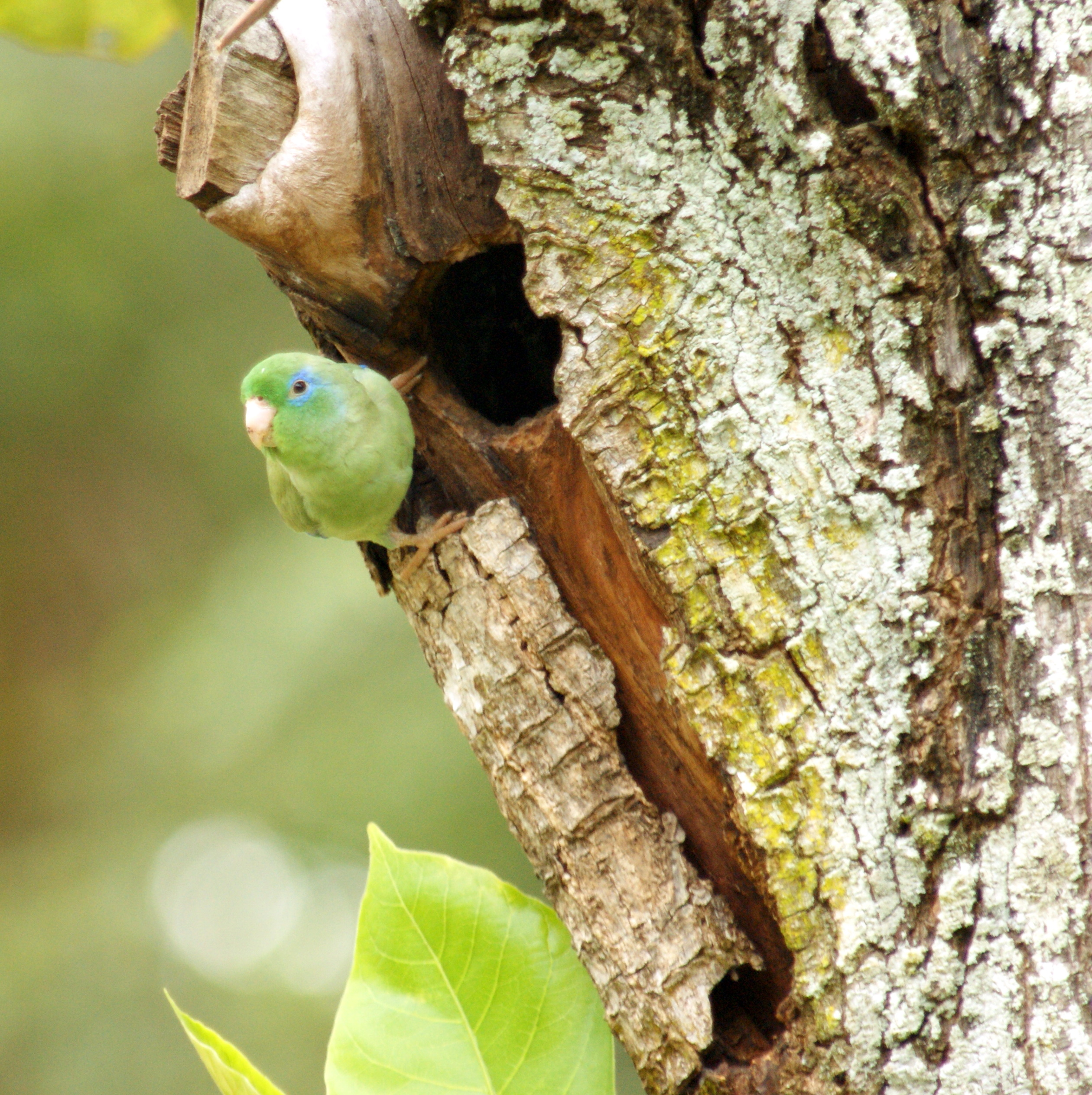 A male Spectacled Parrotlet in Colombia just outside the entrance of its nest.